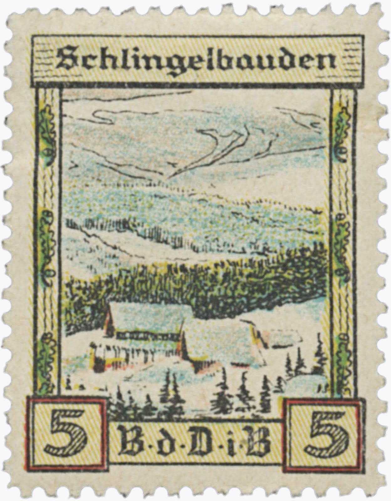 Poster stamp issued by "Bund der Deutschen in Böhmen", used in the period between 1900 to 1918 for advertising. Original size: 4x3 cm.